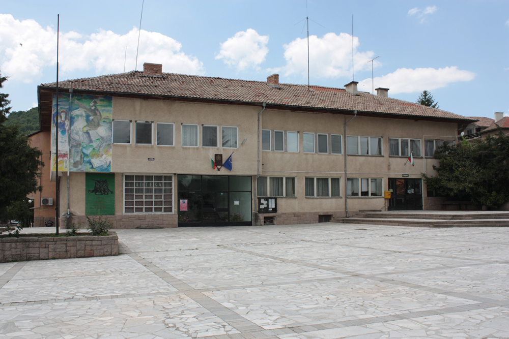 Municipality and Post office of Banya, Pazardzhik District, Bulgaria Кметството и Пощата на с. Баня (Област Пазарджик)